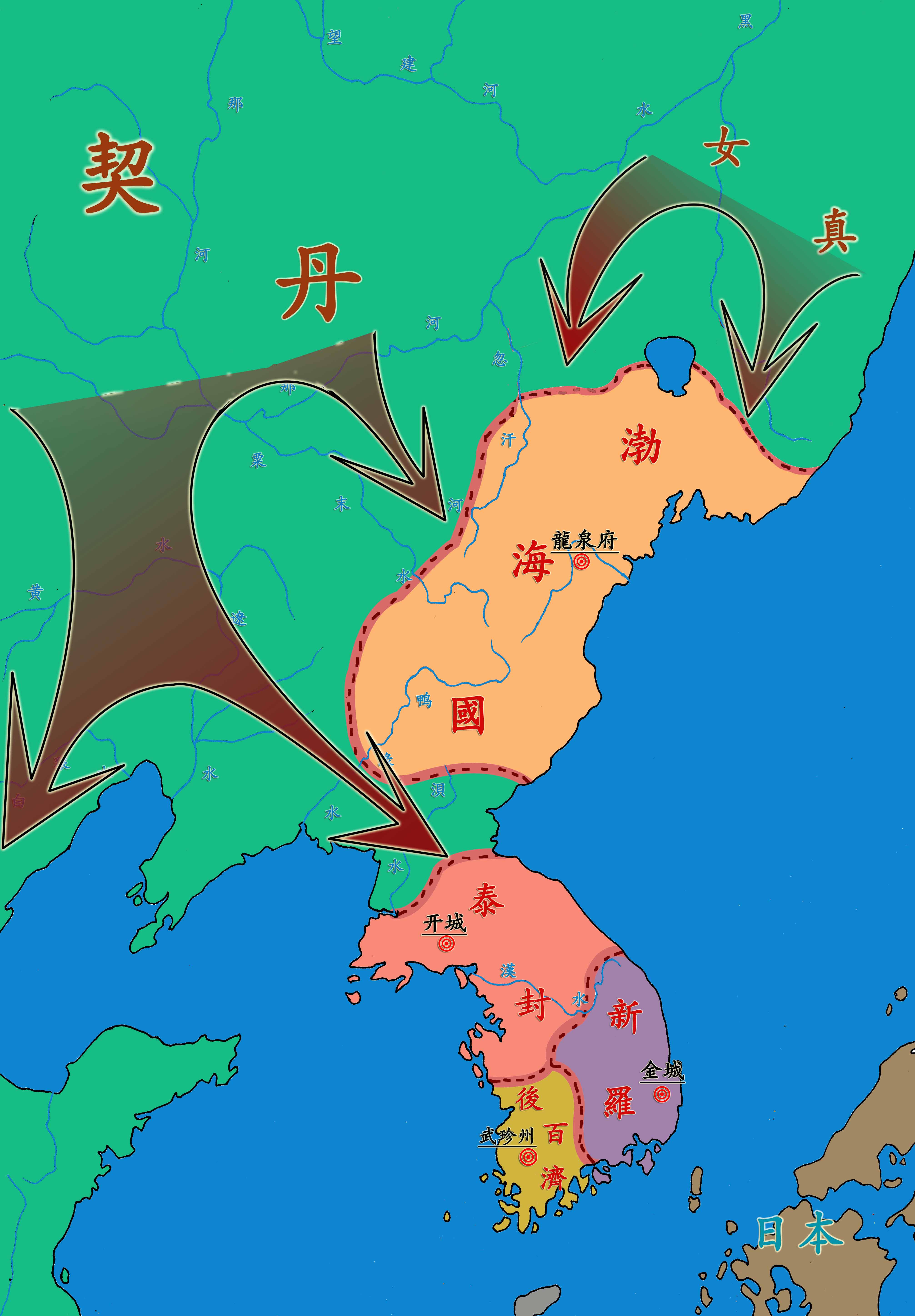 Later_Three_Kingdoms_(後三國).jpg